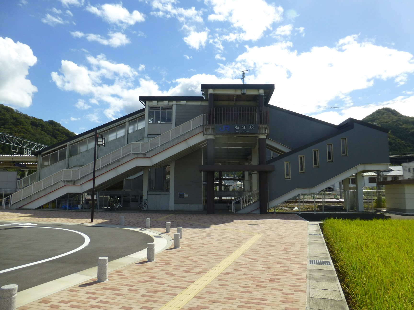 North side of Une railway station on Sanyo mainline. After the station building was reconstructed to over-track type.